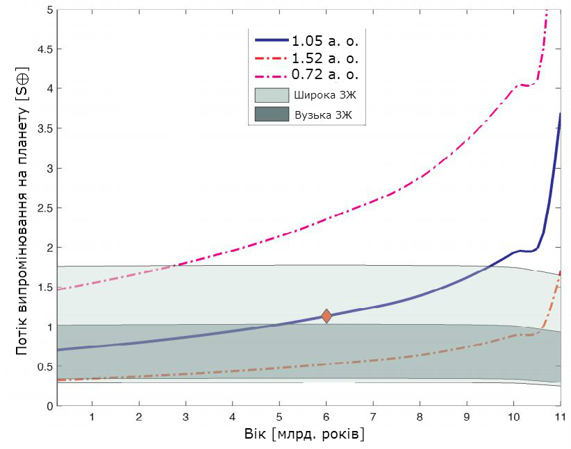 A history of the habitable zone of KIC 8311864 as delineated by the amount of flux received by a planet at the orbital distance of Kepler-452b over the main-sequence lifetime of its star. The image is translated to ukrainian language.